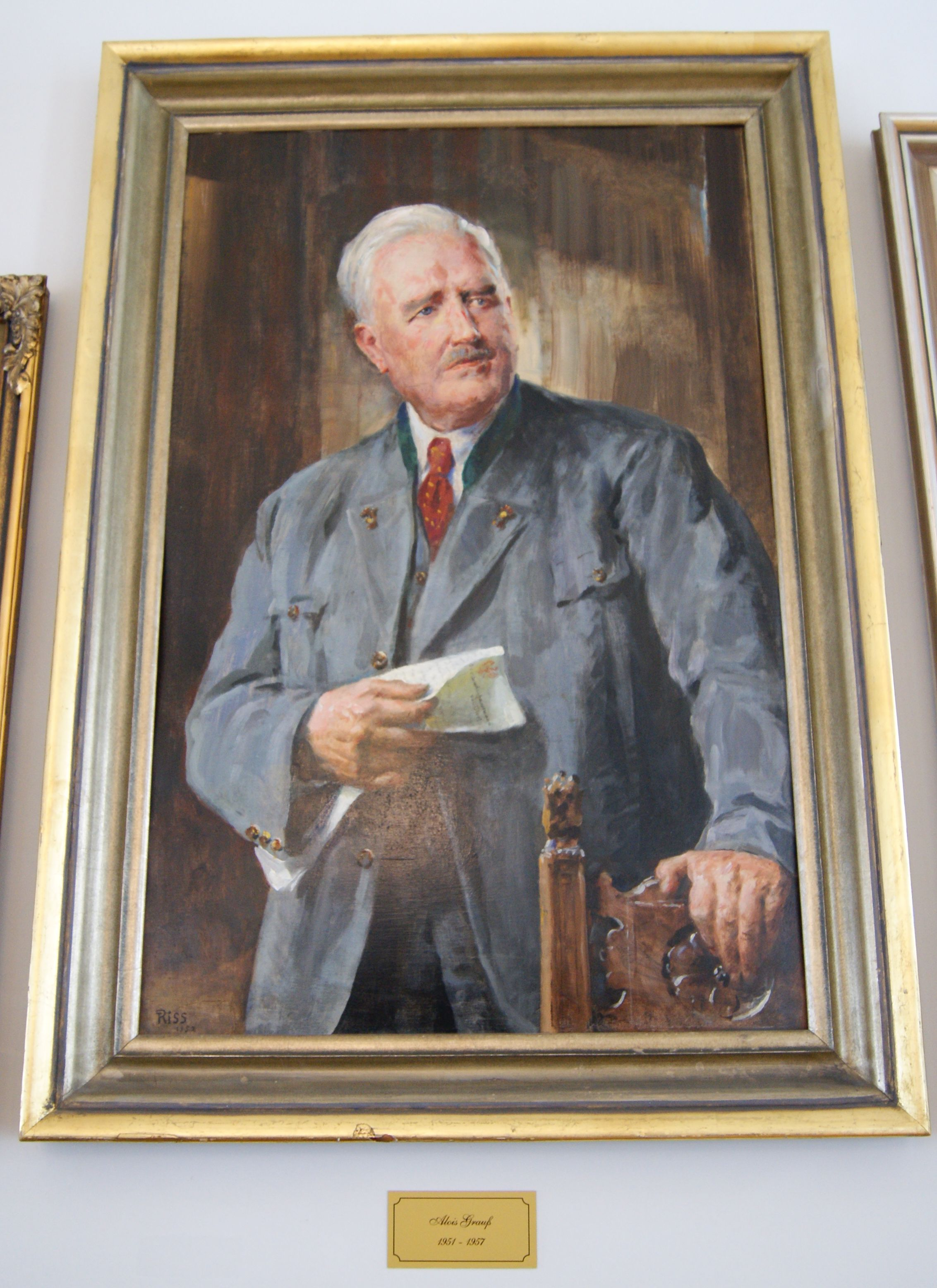 Alois Grauß, head of the Provincial Government and the authority in charge of indirect federal administration of Tyrol.